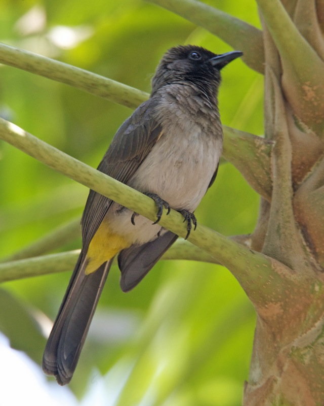 Dark-capped Bulbul Pycnonotus tricolor, Hotel Gorillas, Kigali, Rwanda